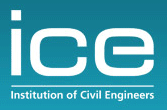 The logo of the Institution of Civil Engineers.